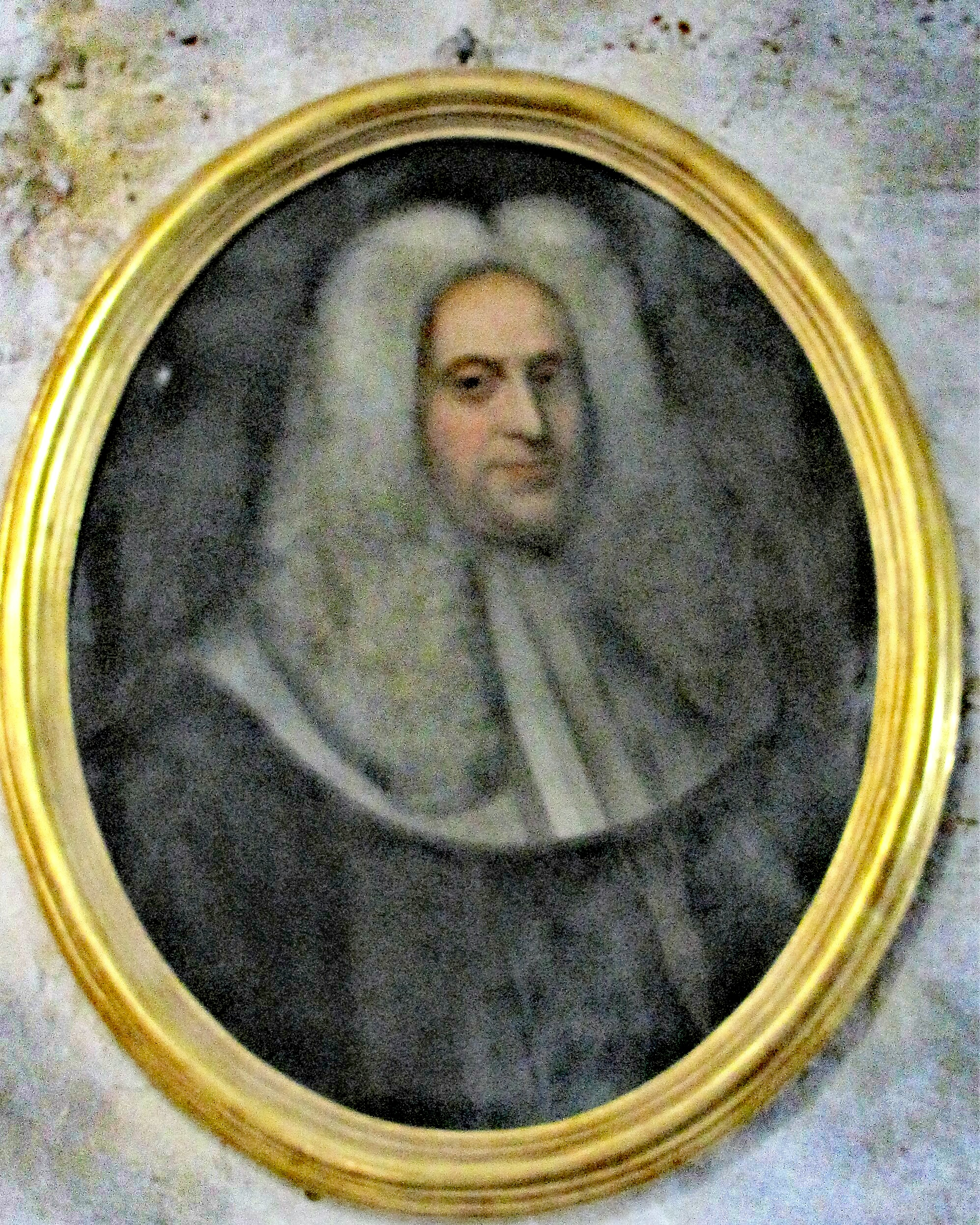 Memorial Portrait of Anton von Lüneburg in Lübeck Cathedral (the only remnant of his baroque epitaph destroyed in 1942)